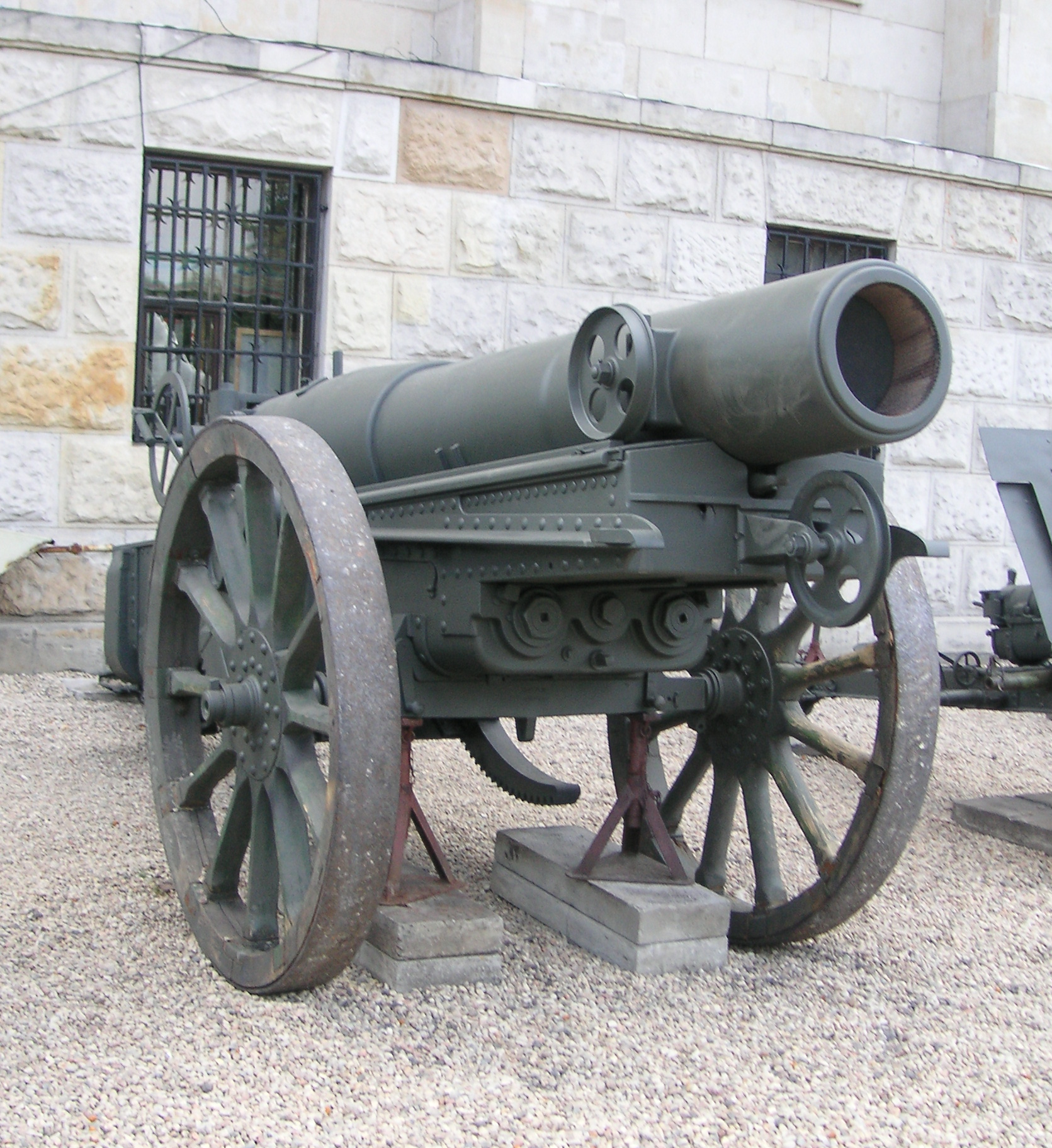 Made on a summer day in Warsaw's Museum of the Polish Army French WWI Mortier de 280 modele 1914 Schneider, manufactured in France for the Russian army during the WWI.